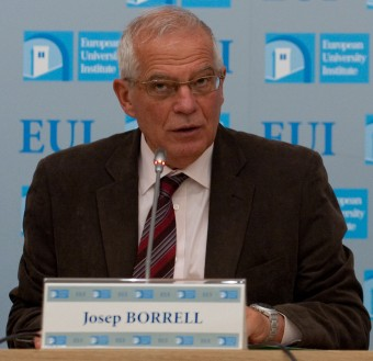 Wolfgang Schauble and President Borrell 3